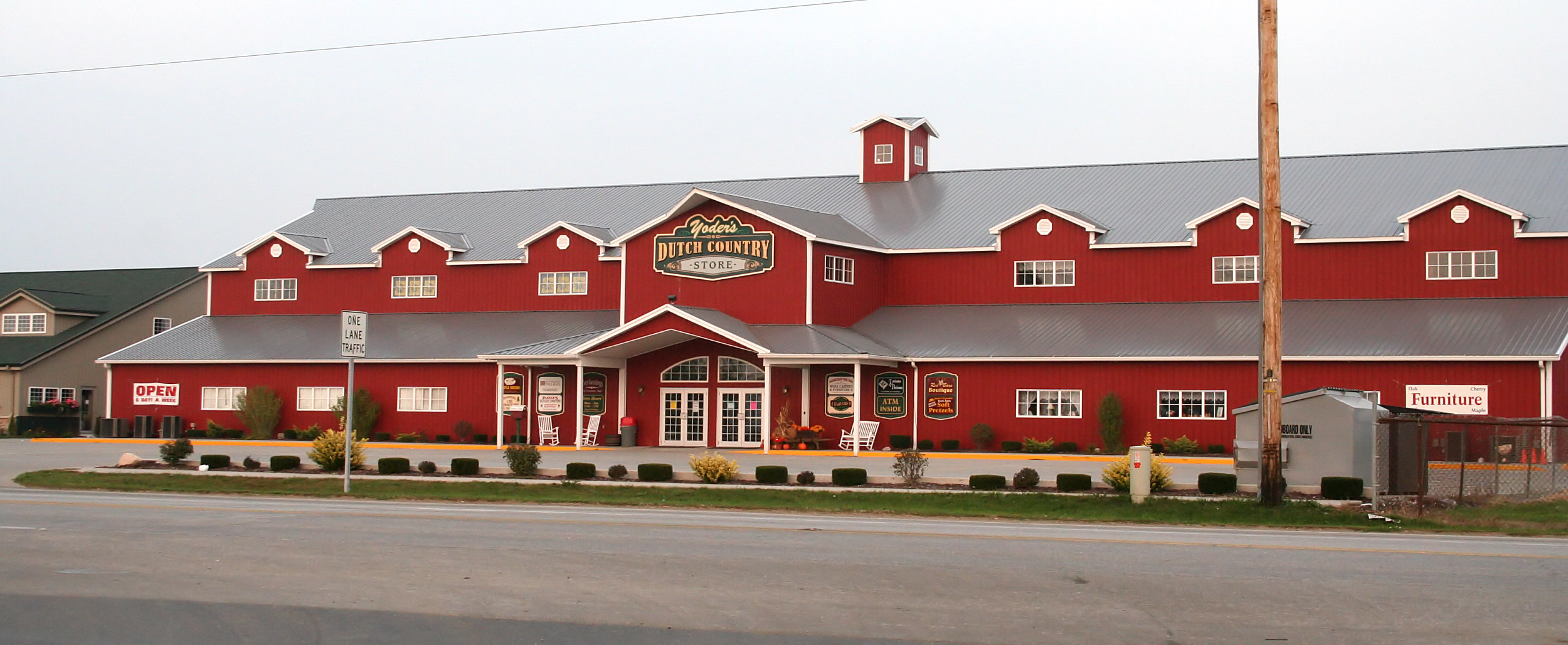 Dutch Country Store in Shipshewana, Indiana. Photo shot by Derek Jensen (Tysto), 2005-October-13